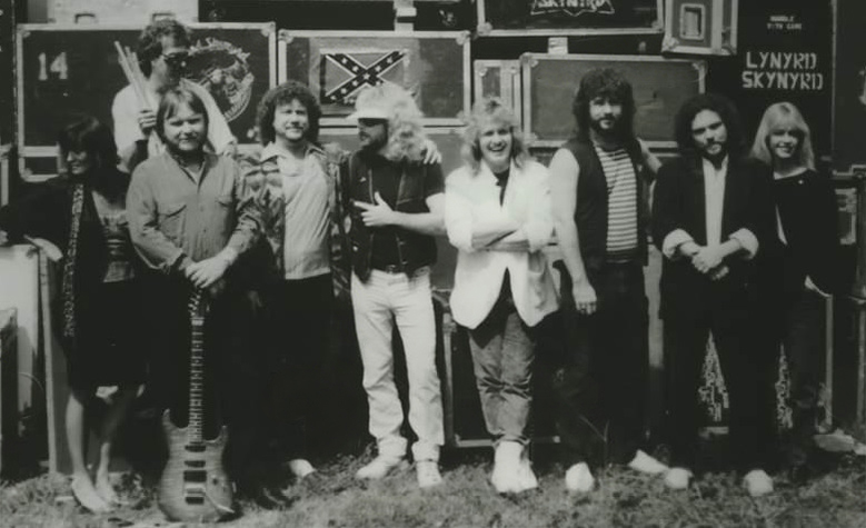 Southern rock band Lynyrd Skynyrd.